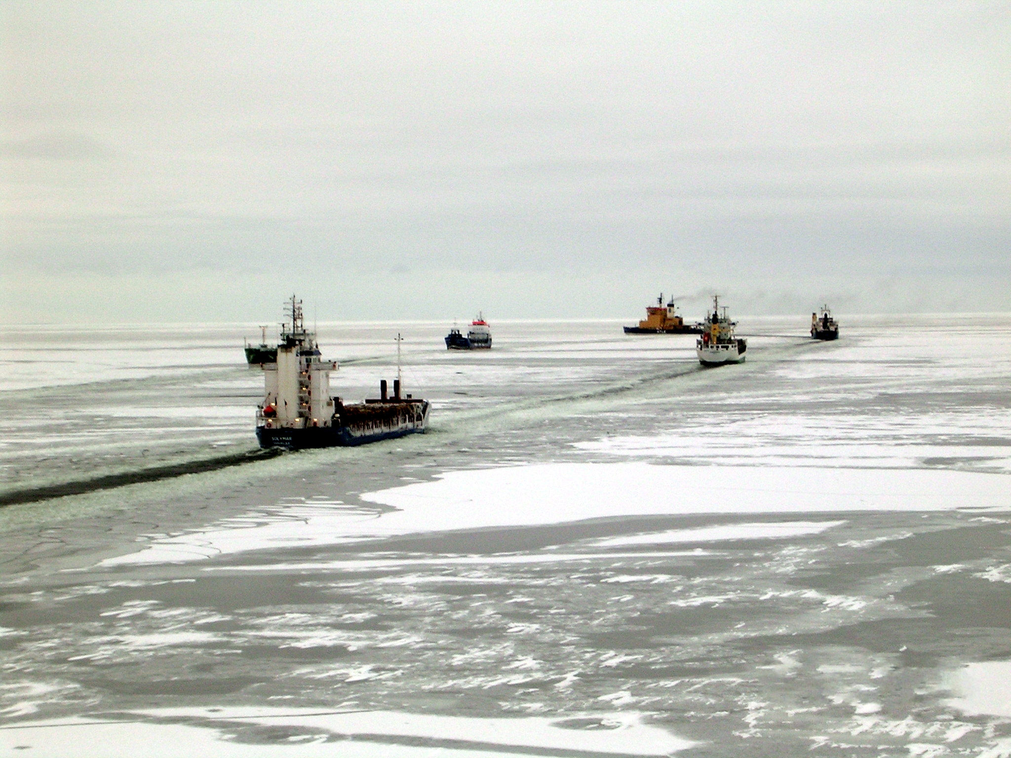 Icebreakers Ymer and Atle changing convoys in the Bay och Botnia.